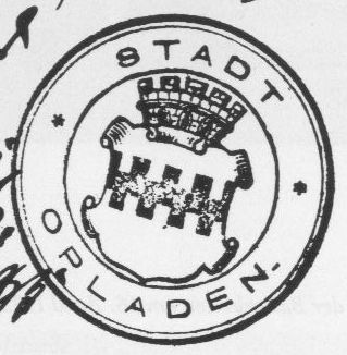 seal of the former city of Opladen